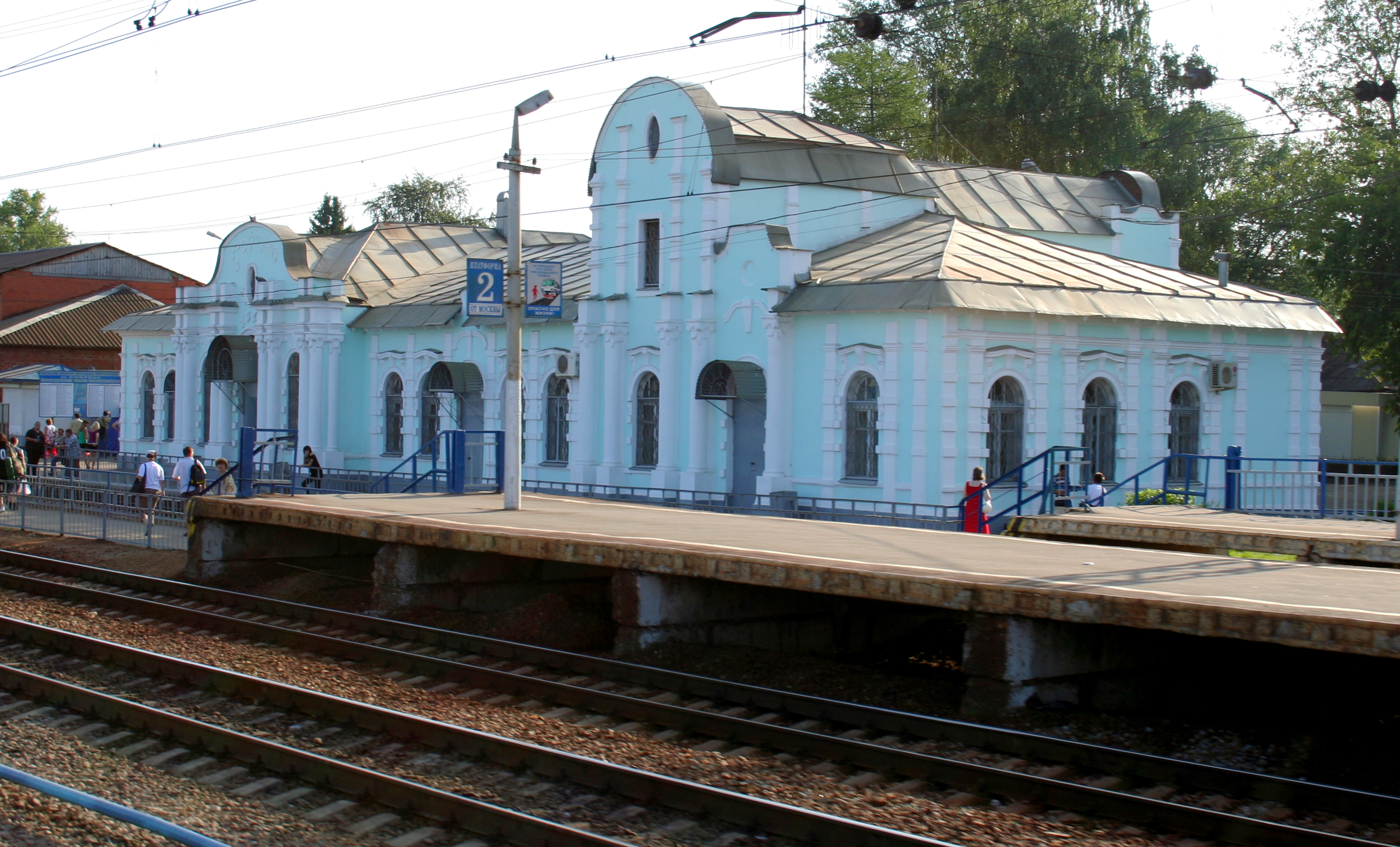 Sofrino train station, Moscow Oblast